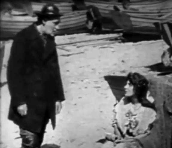 George Nichols and Linda Arvidson in a film still taken from Lines of White on a Sullen Sea (1909)